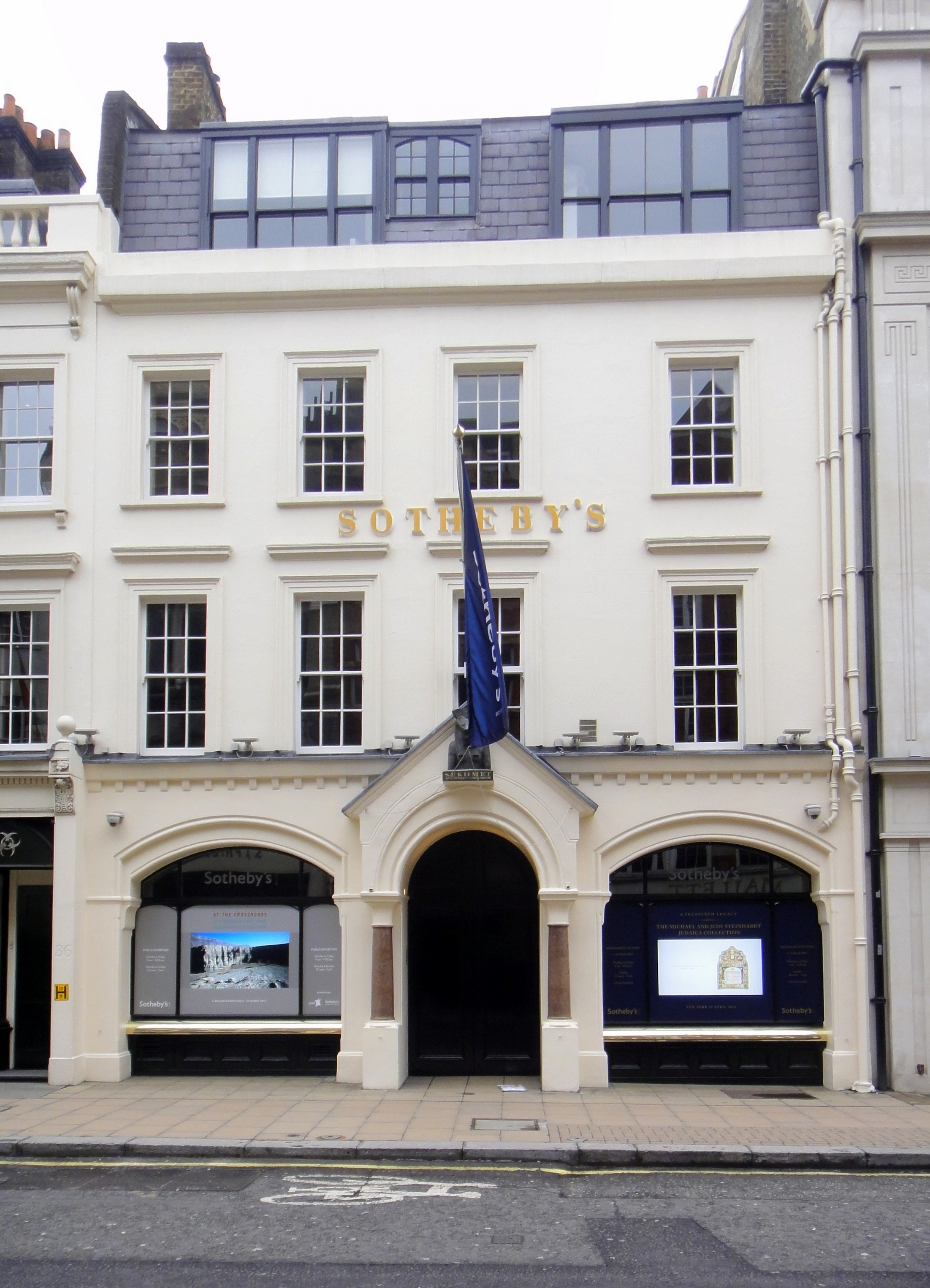 Rainy London in March